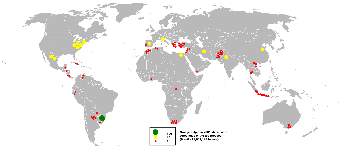 This bubble map shows the global distribution of orange output in 2005 as a percentage of the top producer (Brazil - 17,864,140 tonnes). This map is consistent with incomplete set of data too as long as the top producer is known. It resolves the accessibility issues faced by colour-coded maps that may not be properly rendered in old computer screens.